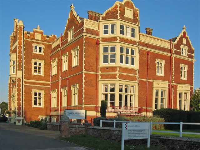 Wivenhoe House The house was built by Thomas Reynolds in the late eighteenth century for the Rebow family. It was painted by Constable in 1816, taken over by the War Office in 1939 and used by the SAS. It has been visited by Churchill, Queen Elizabeth and Nelson Mandela. In 1963 the house and its surrounding parkland were acquired to become the campus of the newly established University of Essex. Since 1977, the house has been a conference centre.